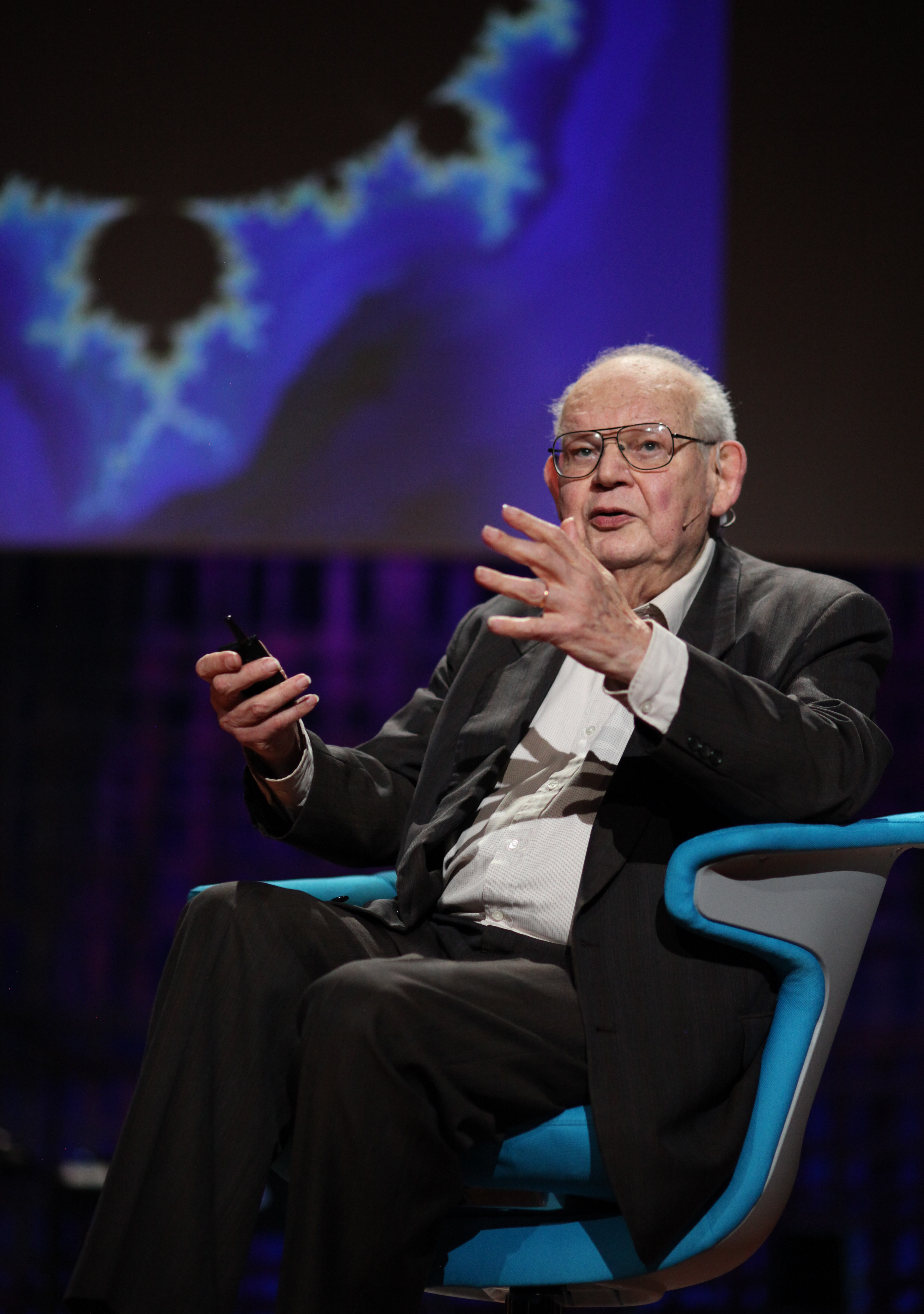 Benoit Mandelbrot talking at TED (Technology, Entertainment, Design) conference